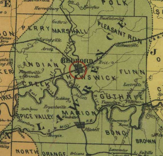 An 1890 map of Lawrence County, Indiana, depicting the now defunct Flinn Township.